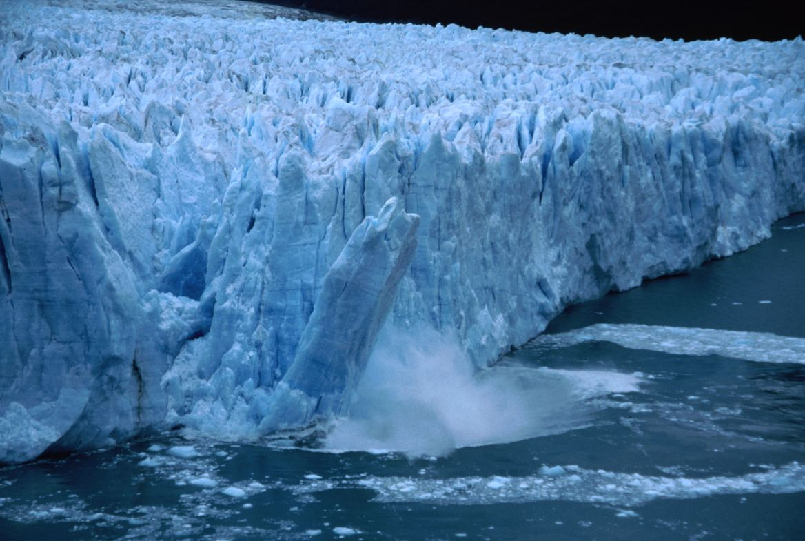 Perito Moreno Glacier, in Los Glaciares National Park, southern Argentina